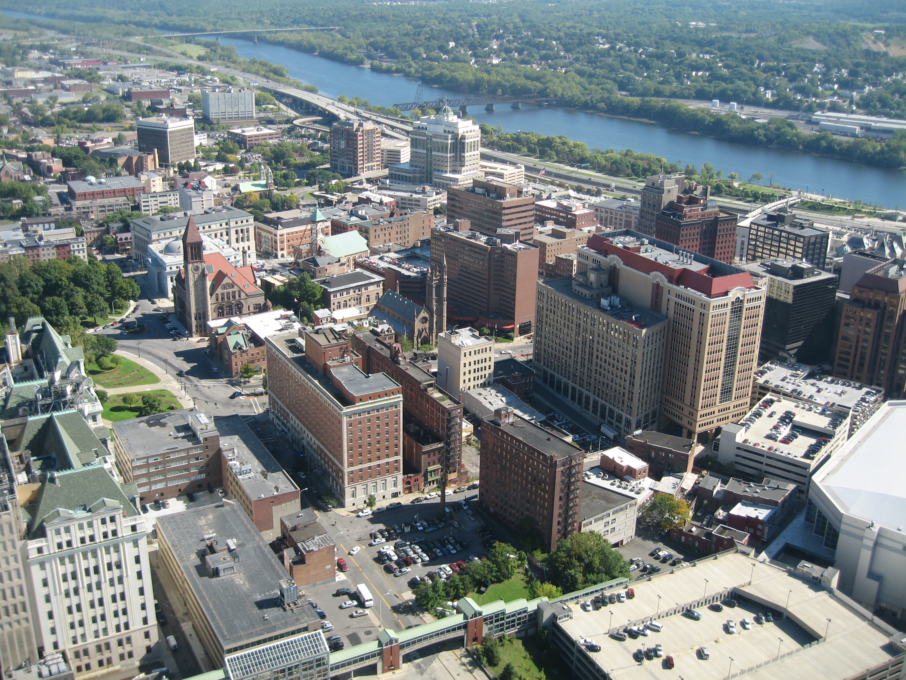 View of downtown Albany, New York, United States from the Corning Tower